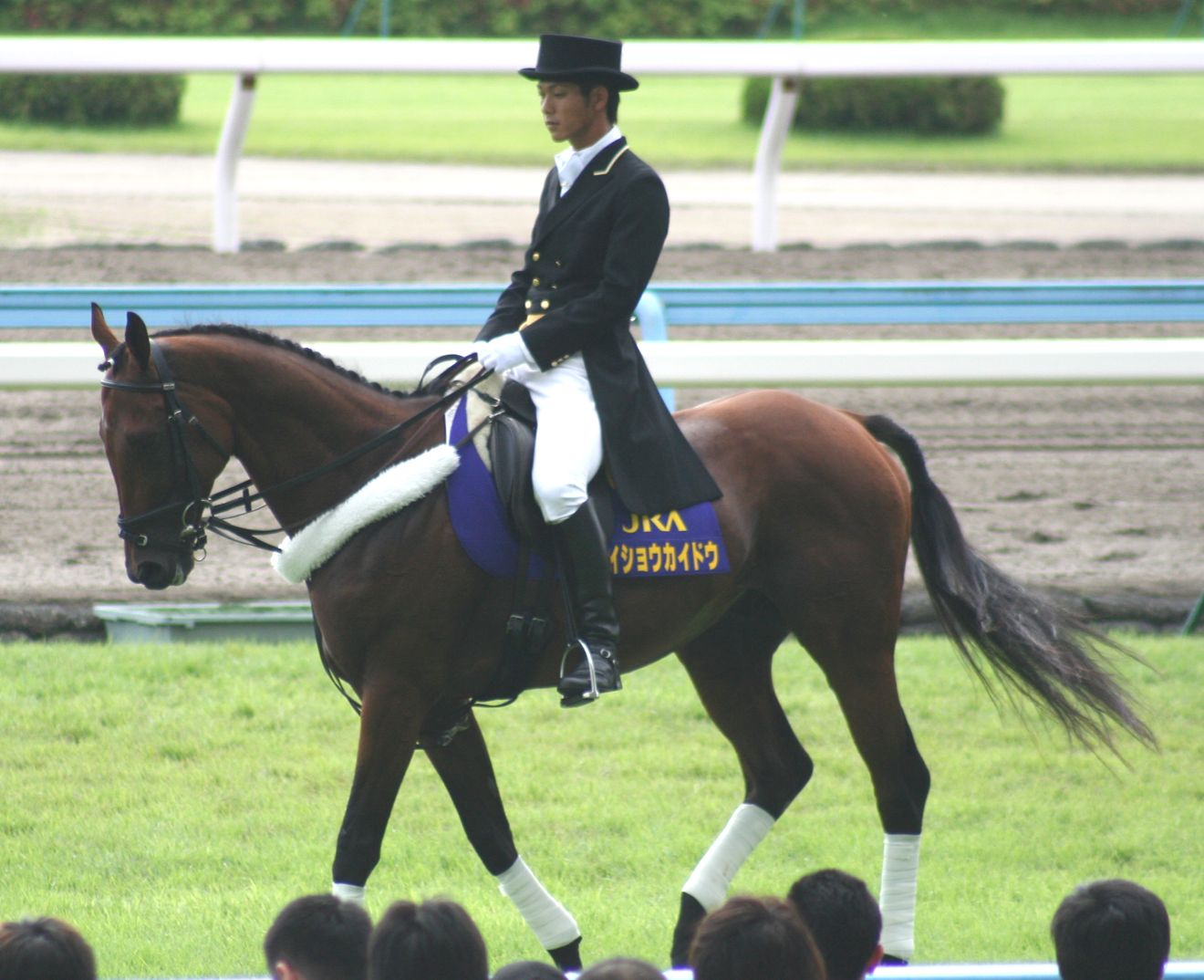 Meisho Kaido(Horse, Kokura Racecourse)